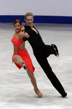 2008 World Junior Figure Skating Championships - Emily Samuelson and Evan Bates